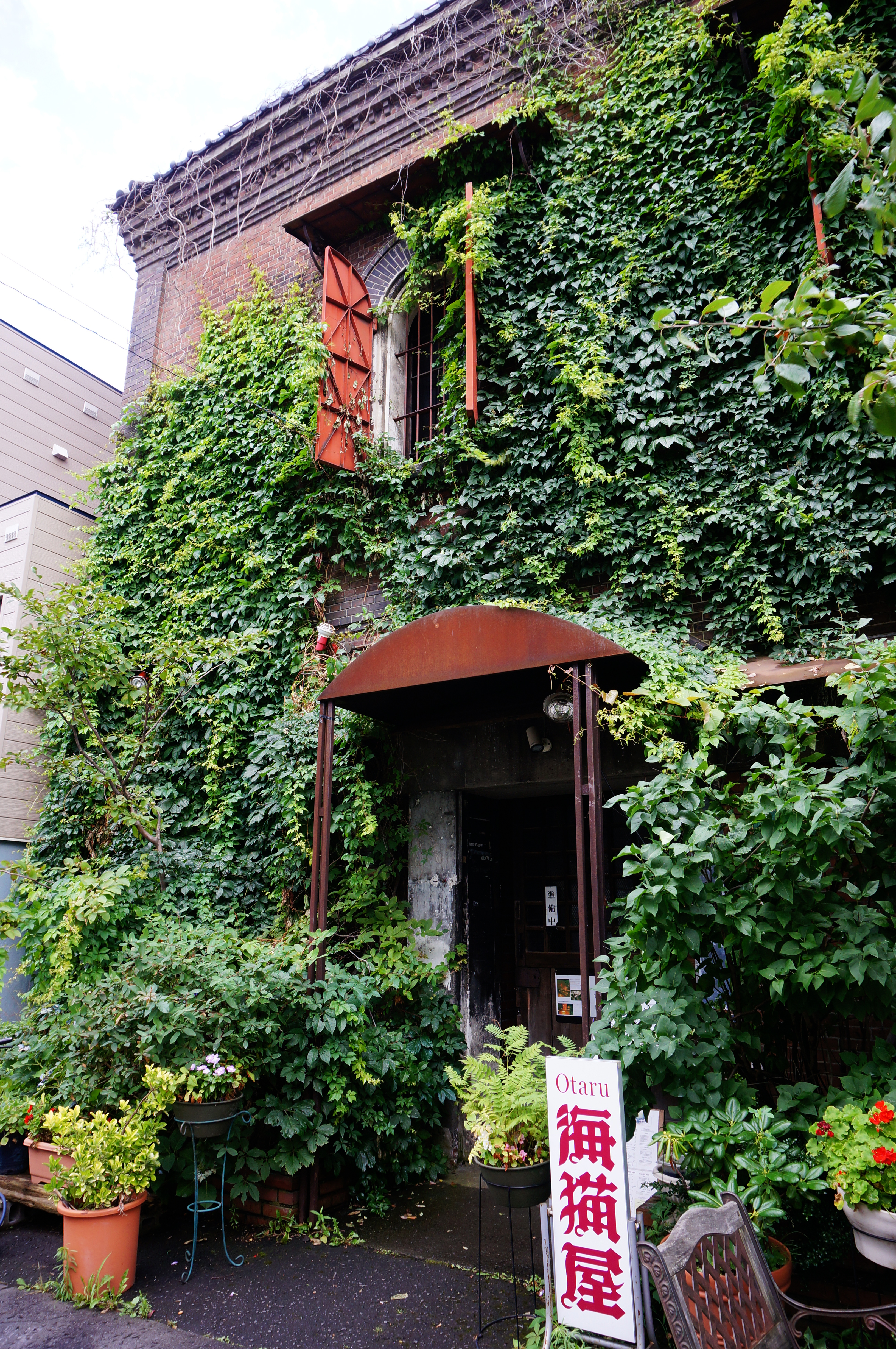 Restaurant "Uminekoya" in Otaru, Hokkaido prefecture, Japan.